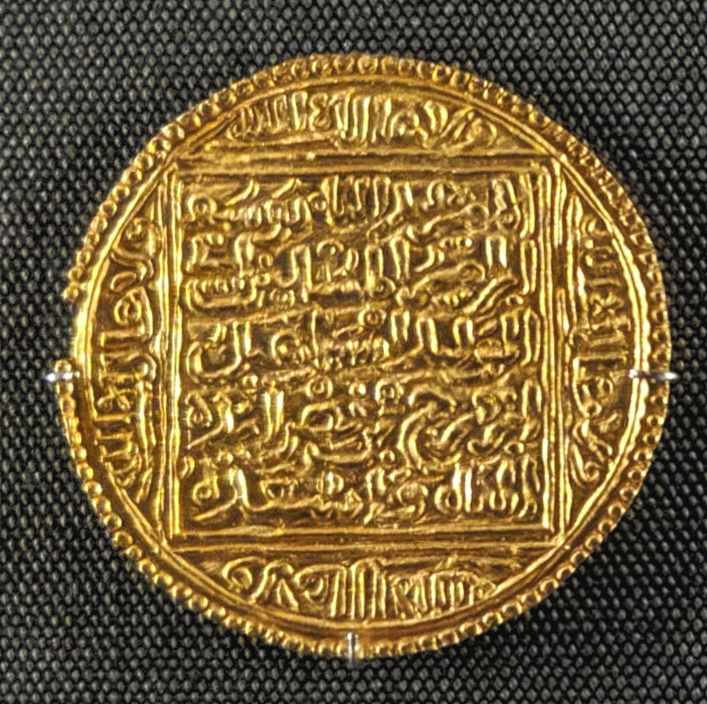 Gold dinar of Yusuf I ibn Isma’il ibn Faraj ibn Nasr, (734-755 H/1333-1354 AD) Photograph taken by me in the David Museum. More information about this coin